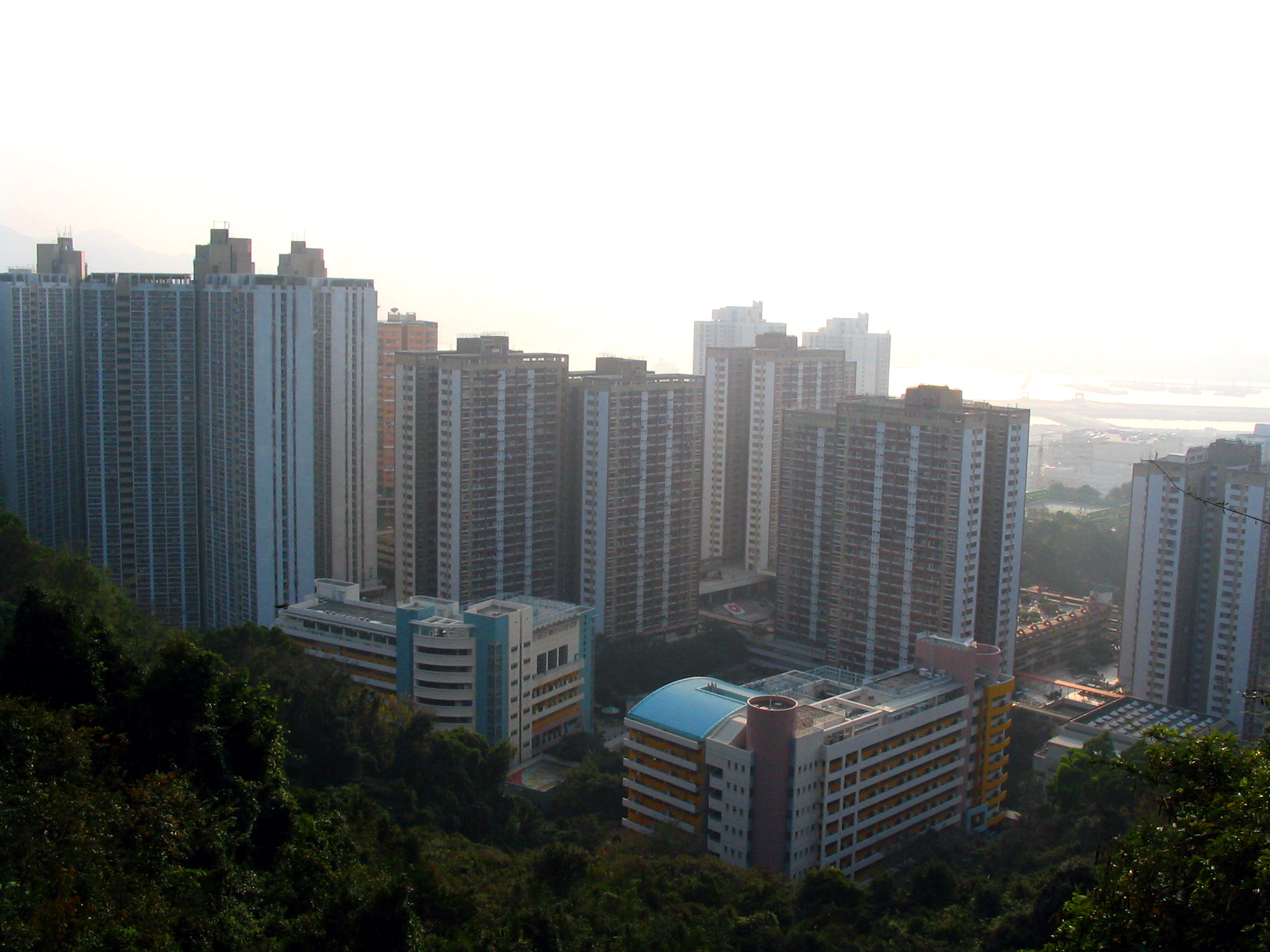 Taken by user user:Ngchikit on 27 Jan 2007.